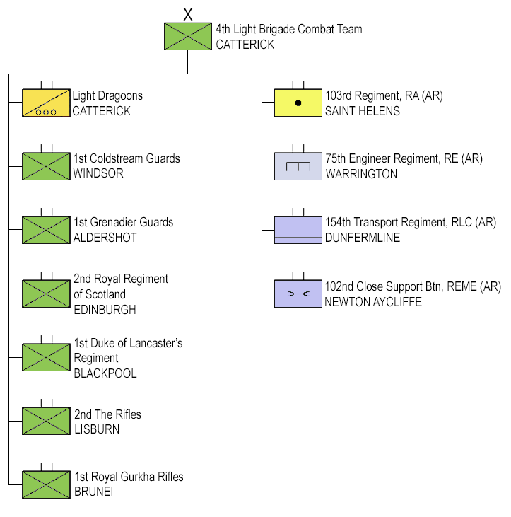 Updated (2020) structure of 4 Inf Bde graphic.